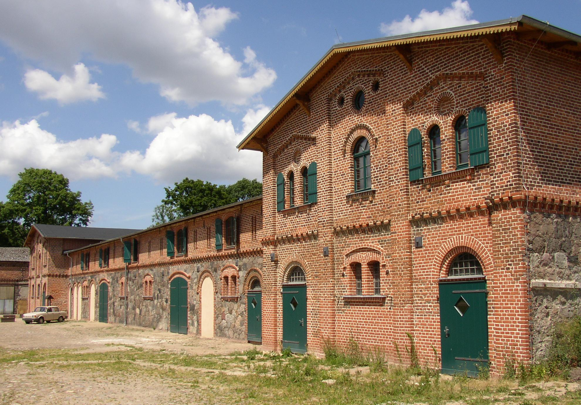 Former stable in Bernau-Börnicke in Brandenburg, Germany